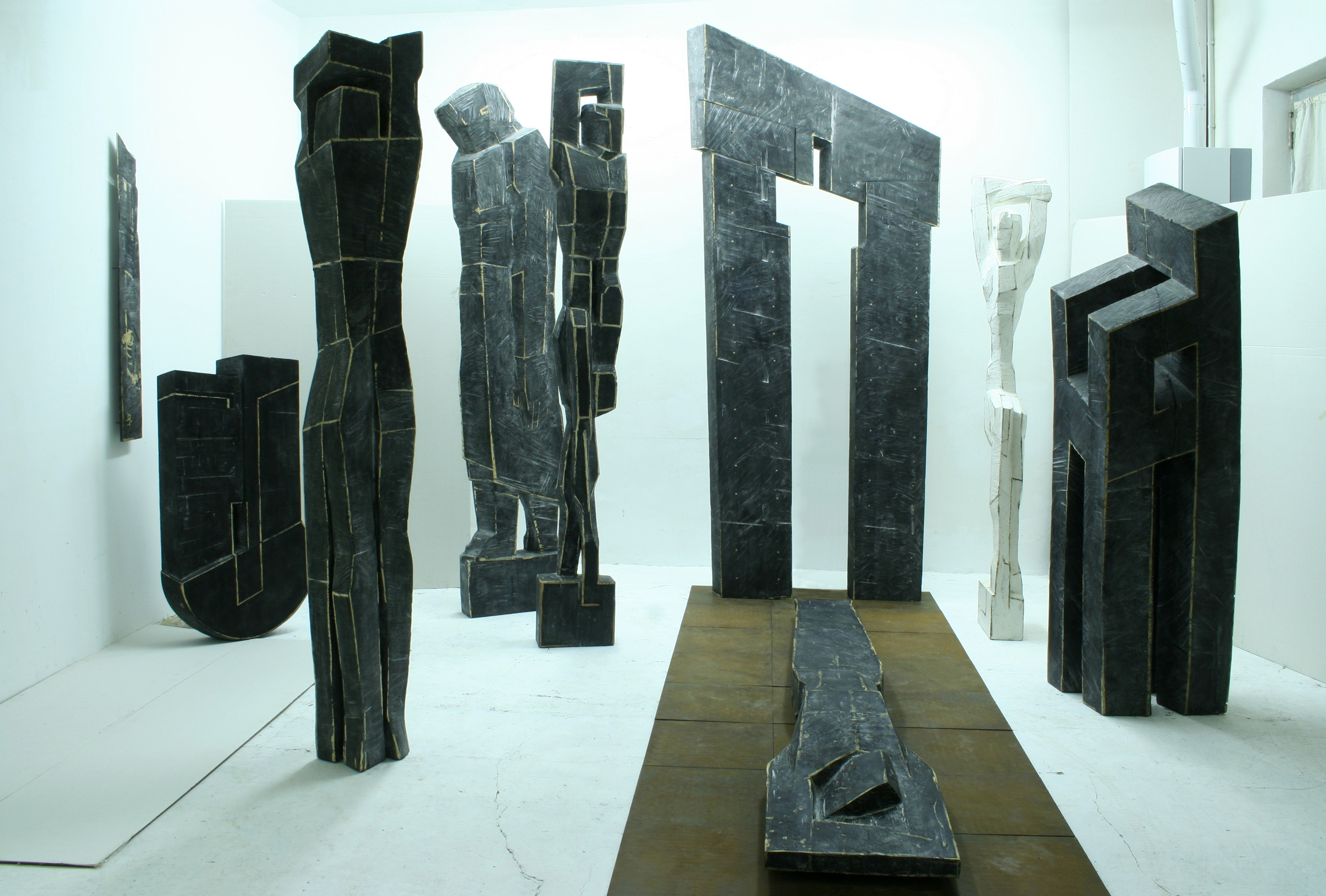 sculptures made of wood by Andreas Theurer in his studio in Töpchin (Brandenburg) in october 2008